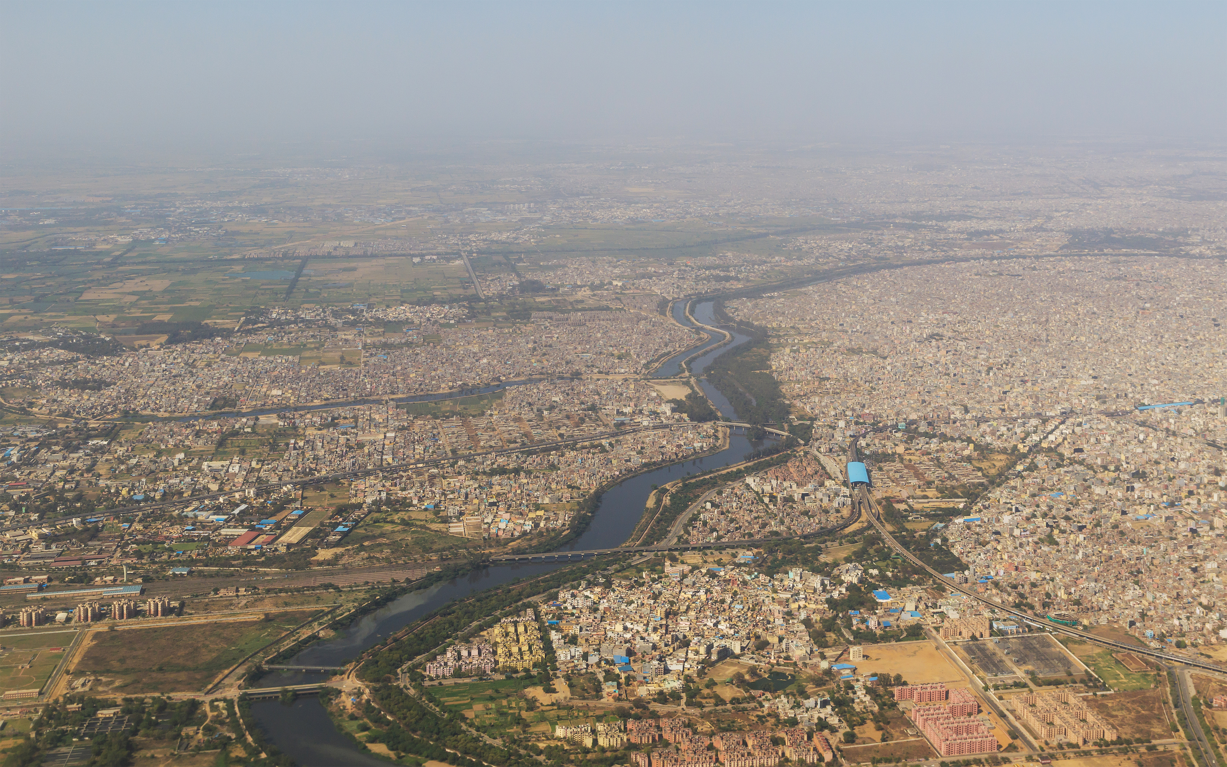 Aerial photograph of Dwarka Sub City / New Delhi, India, taken from airplane